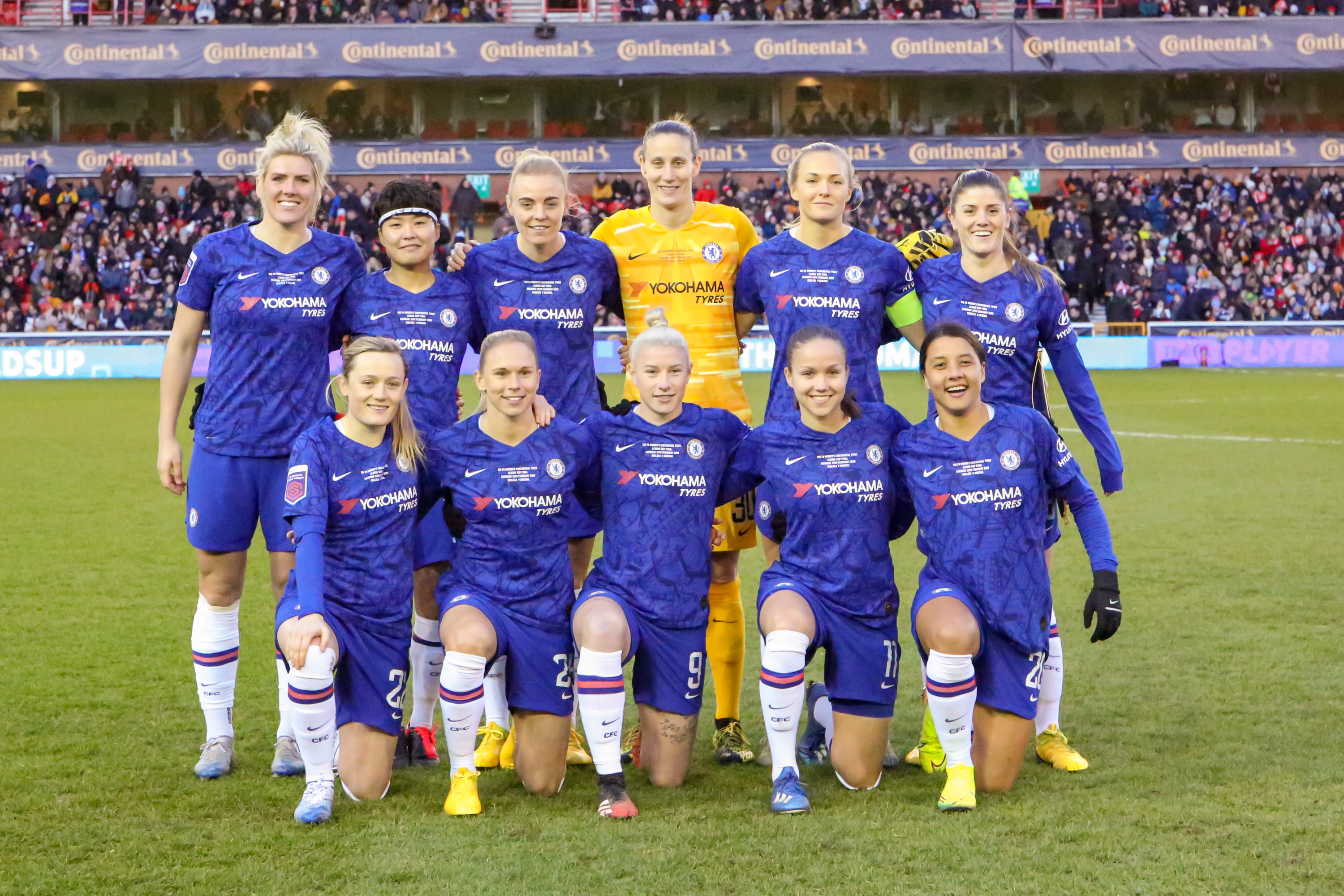 Chelsea starting team photo.